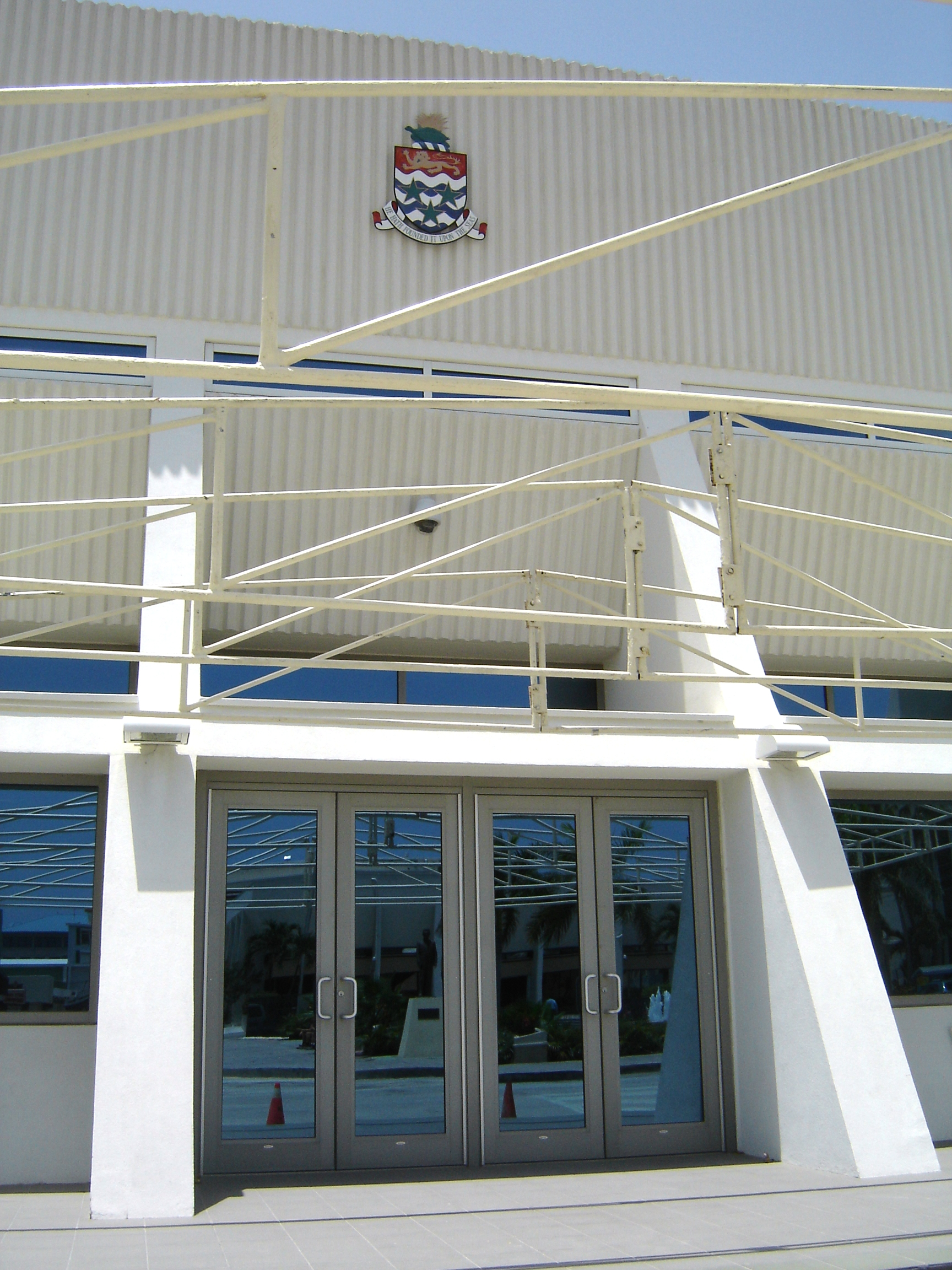 Front steps of the Legislative Assembly of the Cayman Islands. Taken in George Town on June 6, 2007.